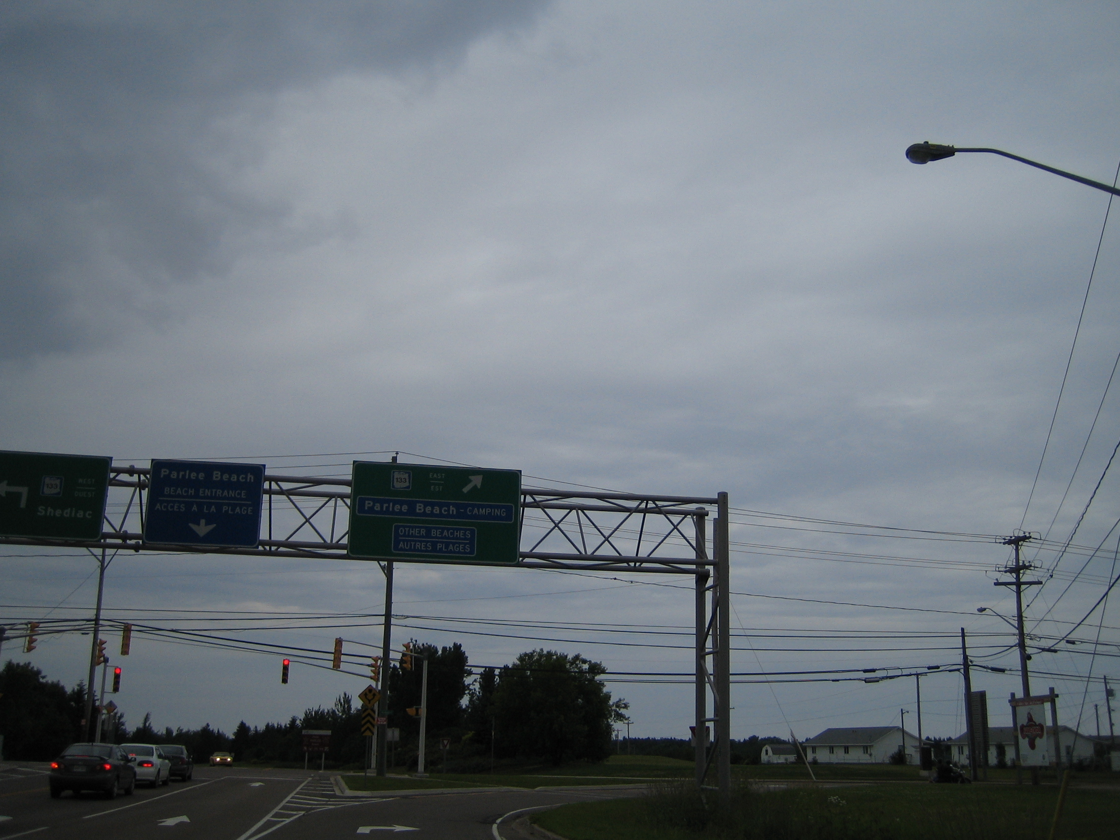 Parlee Beach road sign, NB, Canada